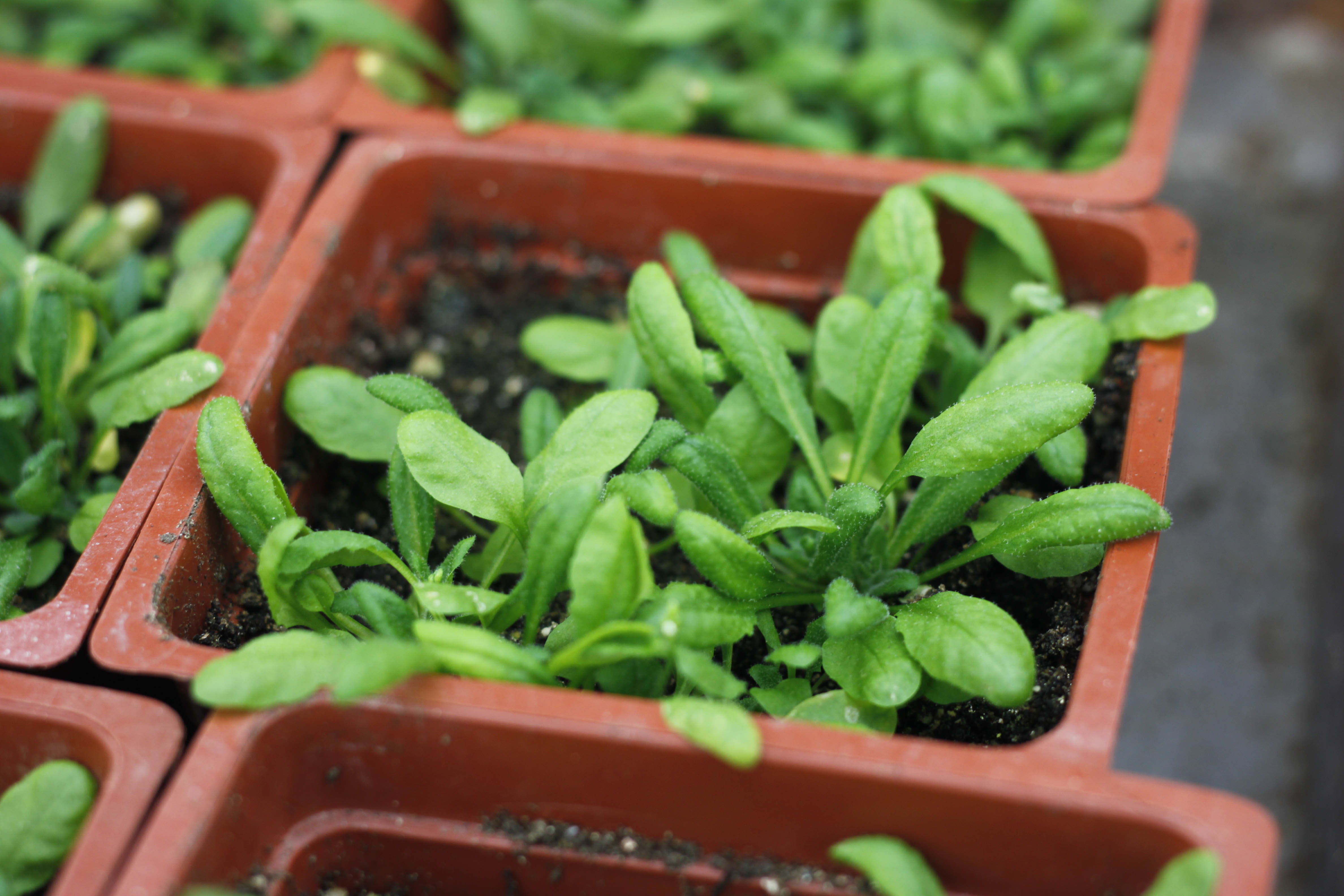 Arabidopsis Thaliana planted in laboratory for AT protenome research